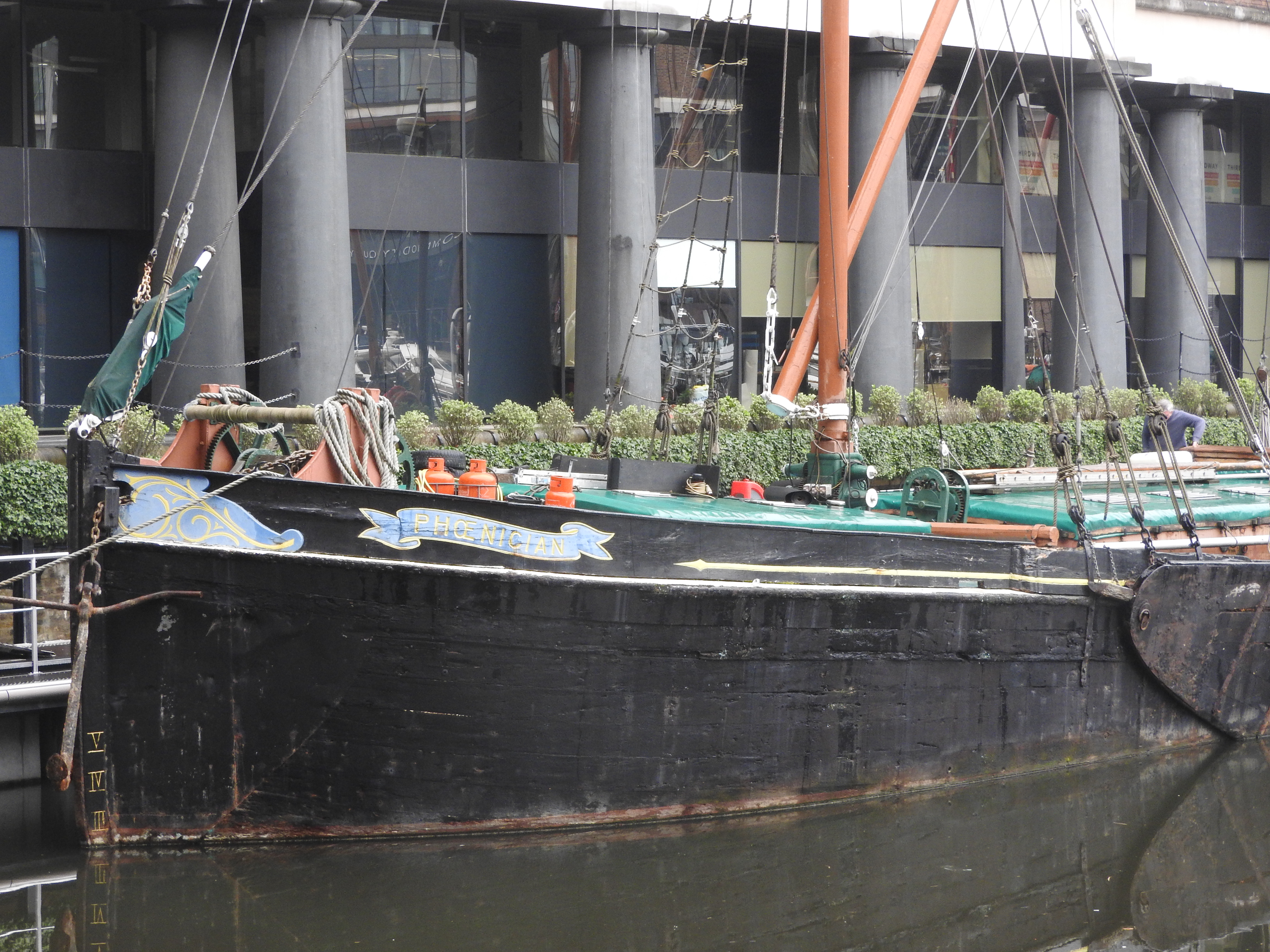 Thames barges in St Katharine Docks, London.